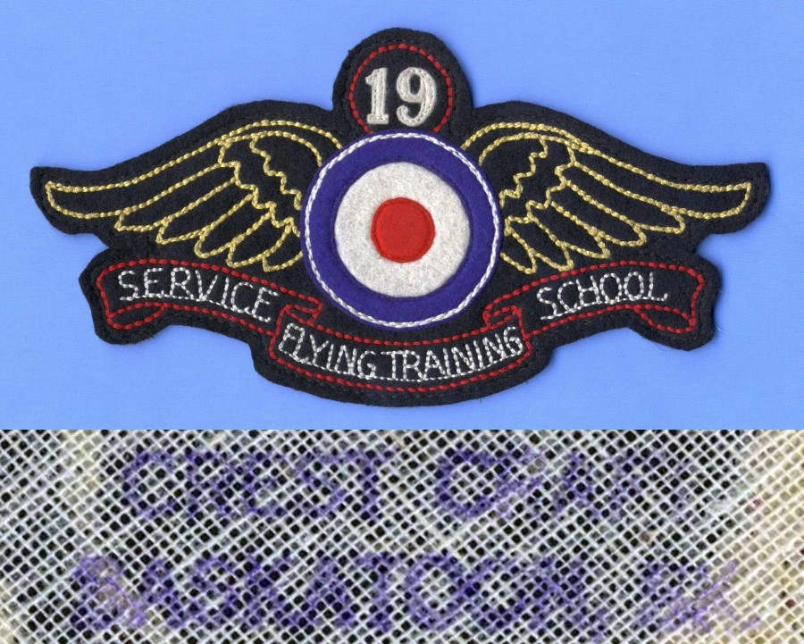 WWII RCAF jacket crest from #19 SFTS (Service Flying Training School) Vulcan, Alberta, circa 1943-1945.